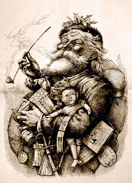 Thomas Nast's most famous drawing, "Merry Old Santa Claus", from the January 1, 1881 edition of Harper's Weekly. Thomas Nast immortalized Santa Claus' current look with an initial illustration in an 1863 issue of Harper's Weekly, as part of a large illustration titled "A Christmas Furlough" in which Nast set aside his regular news and political coverage to do a Santa Claus drawing. The popularity of that image prompted him to create another illustration in 1881.